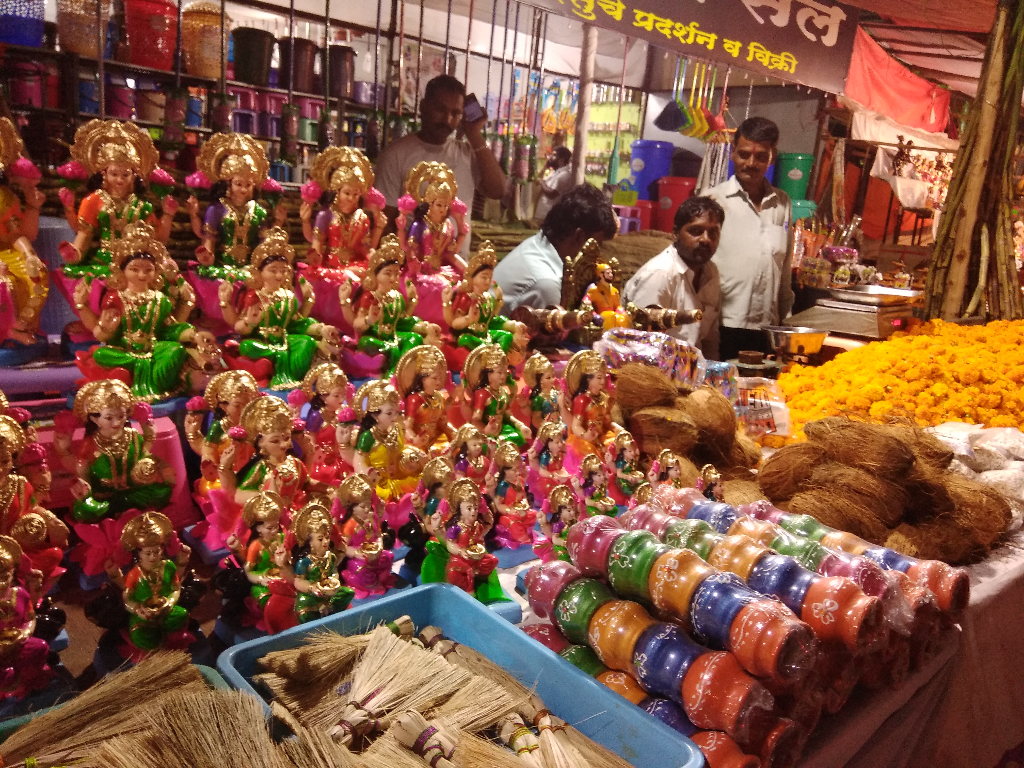 दिवाळीतील लक्ष्मीपूजनासाठी लक्ष्मी मूर्ती